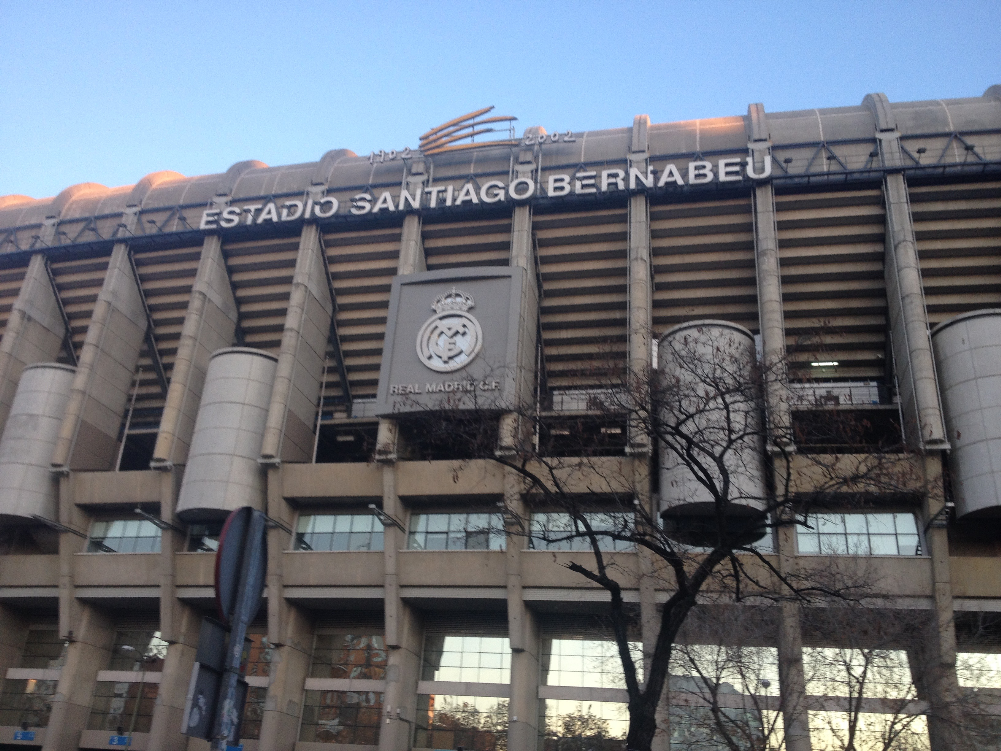 The front entrance of the Santiago Bernabeu Stadium, home to Spanish football club Real Madrid.